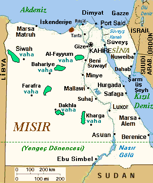 Turkish version of Egypt-region-map-cities.gif